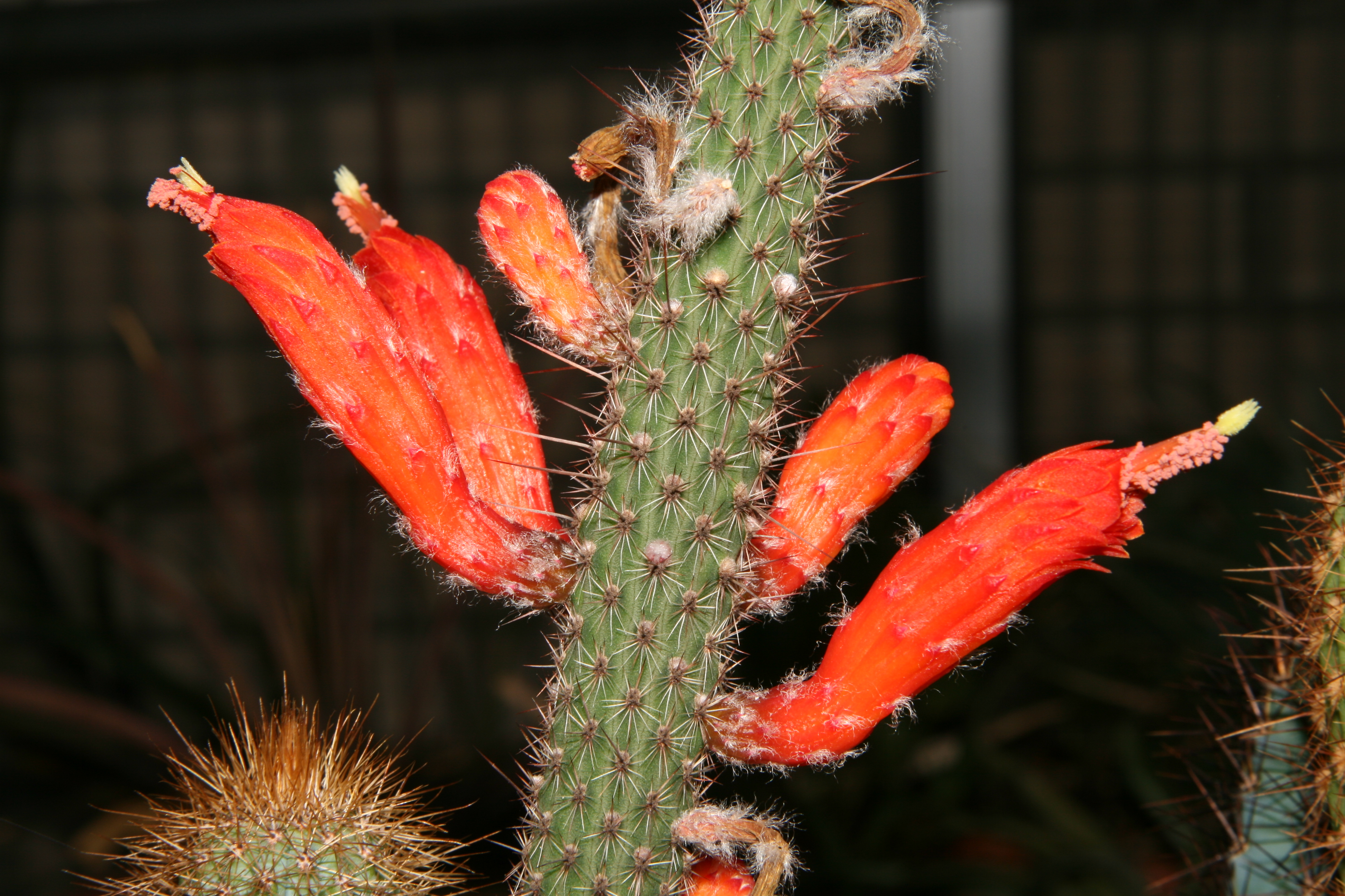 offset of holotype specimen, Mato Grosso do Sul, Brasil